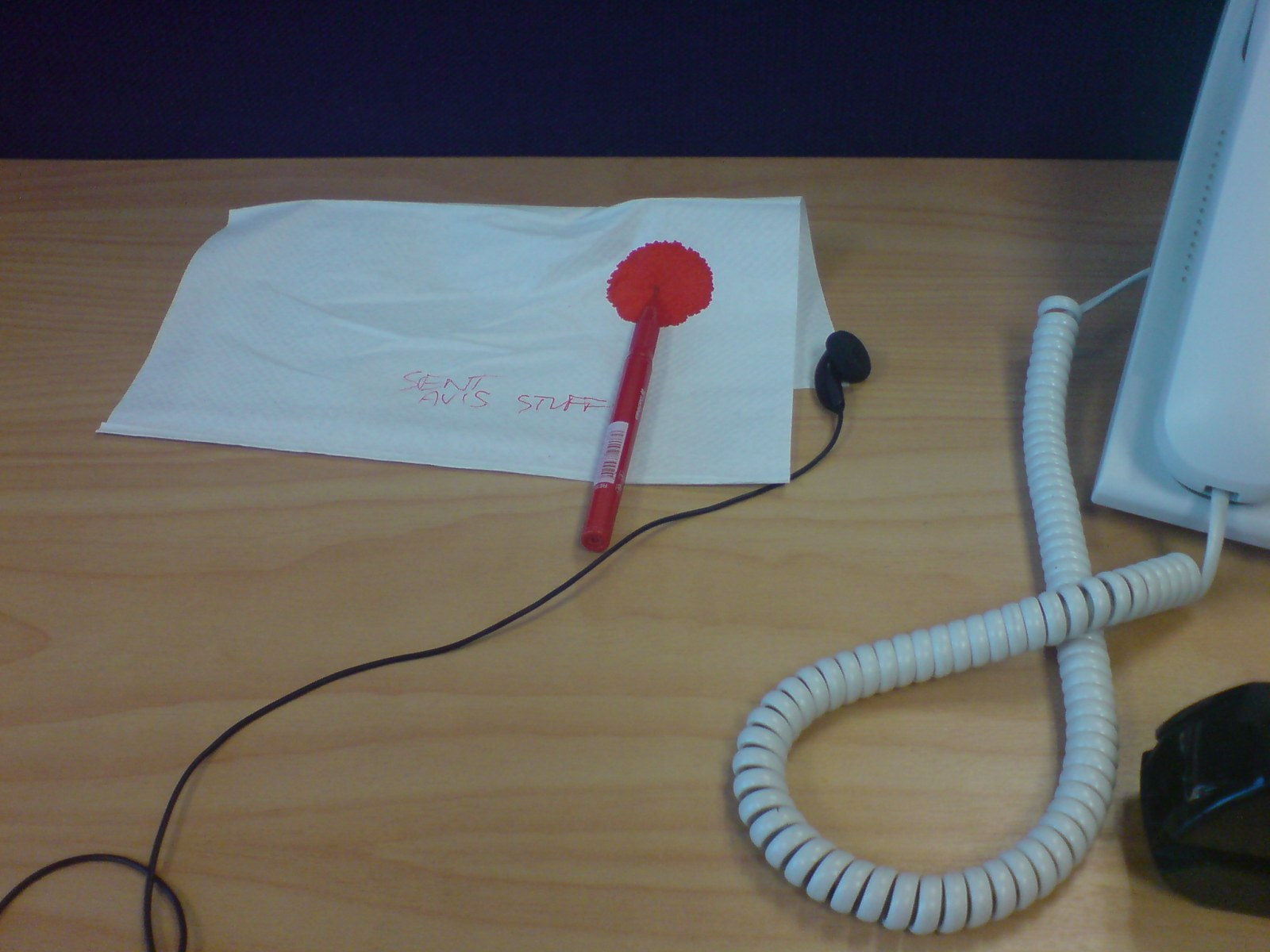 Capillary action between a fineliner inkpen and a piece of kitchen tissue. Occurred unintentionally, but a great example of how strong the suction is.